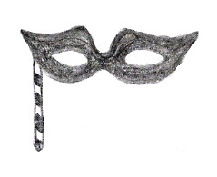 Mask, by Shirley